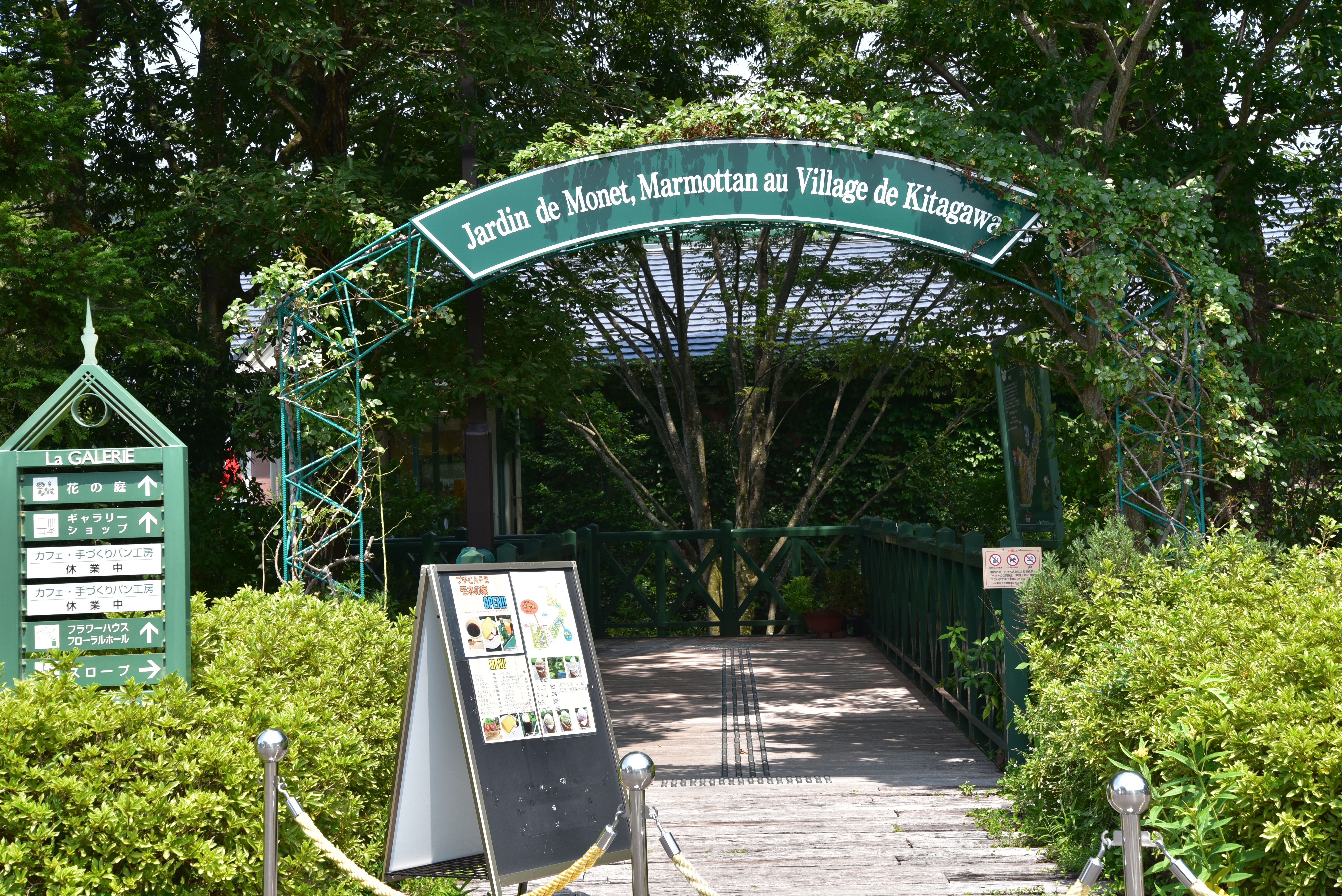 This is not a work of art. Monet of the name has been officially permitted from Monet Foundation. Nikon D750